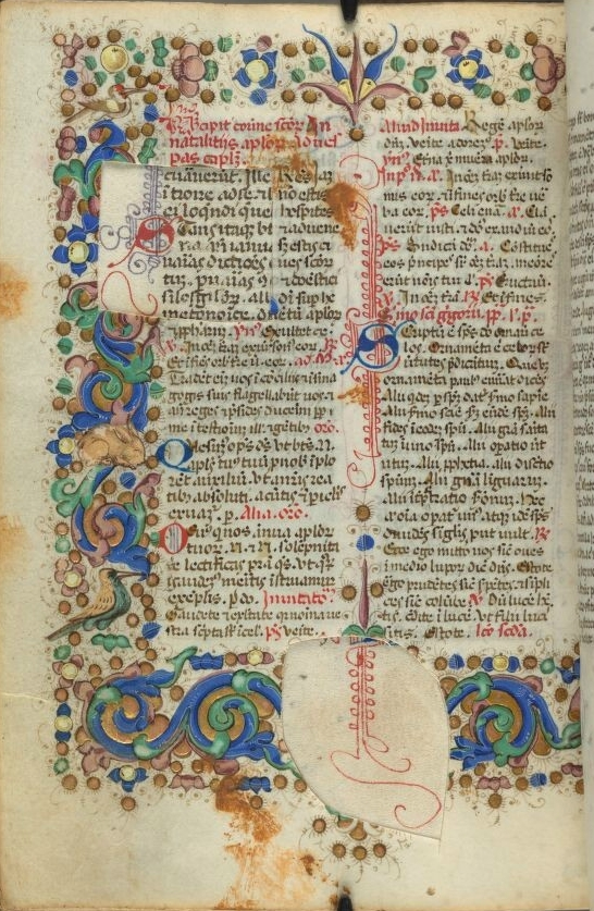 Franciscan Breviary, Italy 1465, l. 171v., Houghton Library